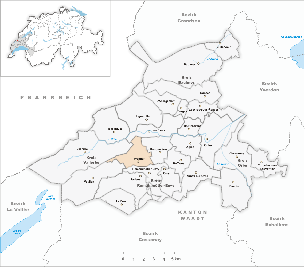 Municipality Premier